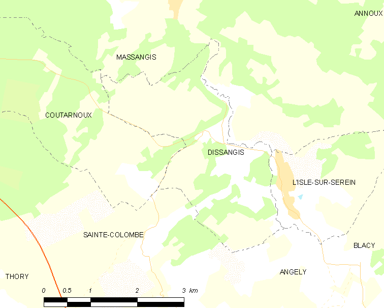 Map of French municipality Dissangis